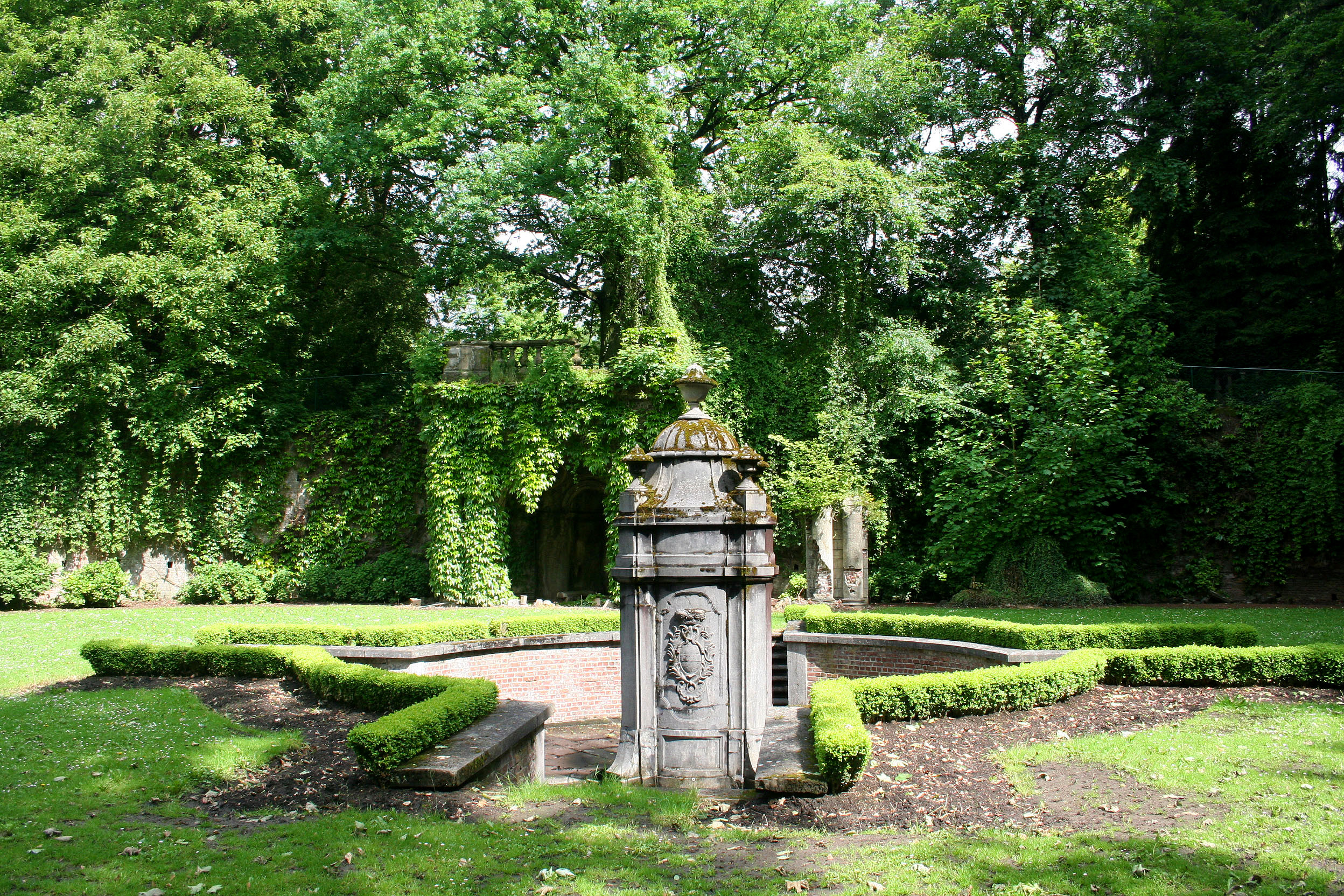 Morlanwelz-Mariemont (Belgium) - Parc de :Mariemont - Archiduke fountain also named Spa fountain (XVIIth century).